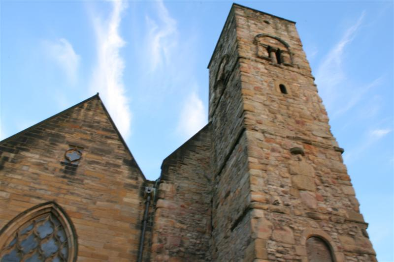 West gable and tower of St Peter's parish church, Monkwearmouth, Tyne and Wear, seen from the west